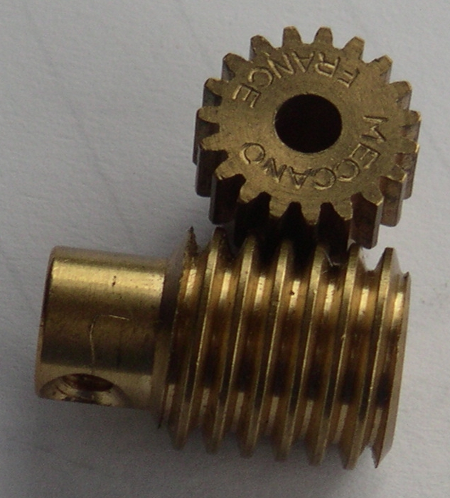 I created this image by photographing gears from a Meccano construction set.